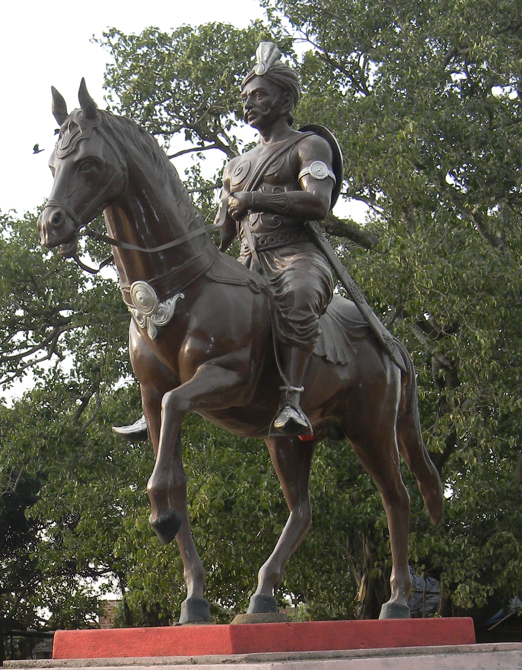 ଓଡ଼ିଆ: Buxi Jagabandhu Bidyadhar Bhramarbar Ray Mahapatra This media file is uploaded with Odia loves Wikipedia